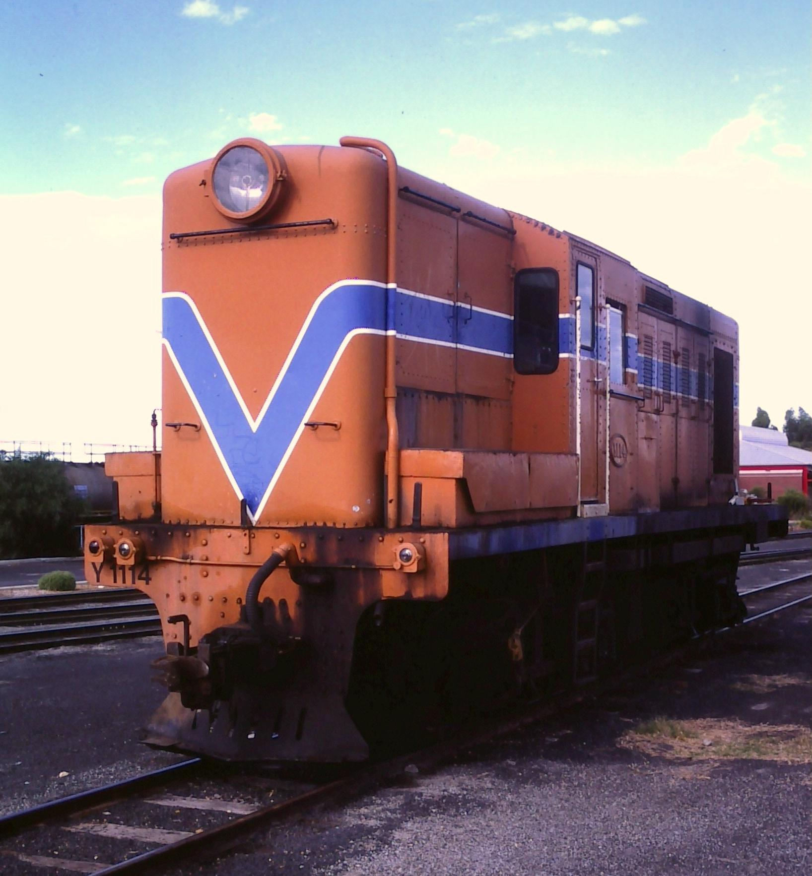 Western Australian Government Railways (WAGR) Y class diesel-electric locomotive no Y1114, in Westrail orange and blue livery, at Picton Yard, Western Australia.Kodachrome slide converted by Kaiser Baas Photo Maker Pro into a digital image.